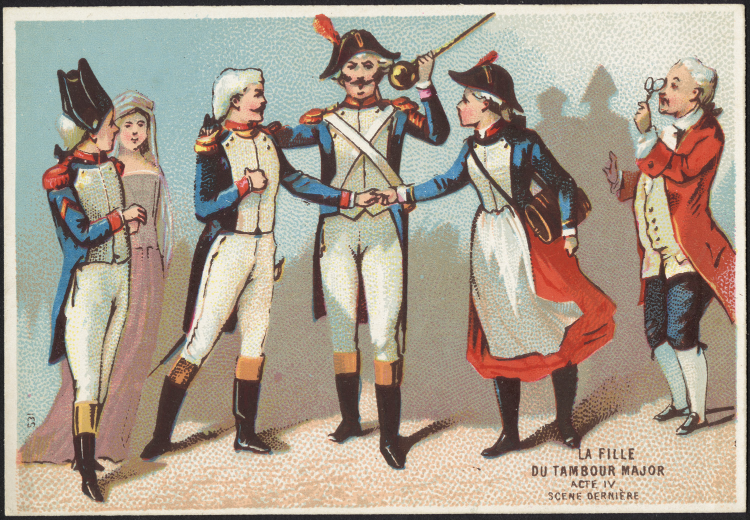 File name: 10_03_002875a Binder label: Stock Cards Title: La Fille du Tambour-Major, acte IV, scene berniere [front] Created/Published: Five Points, N. Y. : Donaldson Brothers Date issued: 1870-1900 (approximate) Physical description: 1 print : chromolithograph ; 8 x 11 cm. Genre: Advertising cards Subject: Adults; Soldiers; Theatrical productions Notes: Title from item. Stamped on item verso: Given Feb 28, 1930 by Wm. S. Appleton Collection: 19th Century American Trade Cards Location: Boston Public Library, Print Department Rights: No known restrictions.